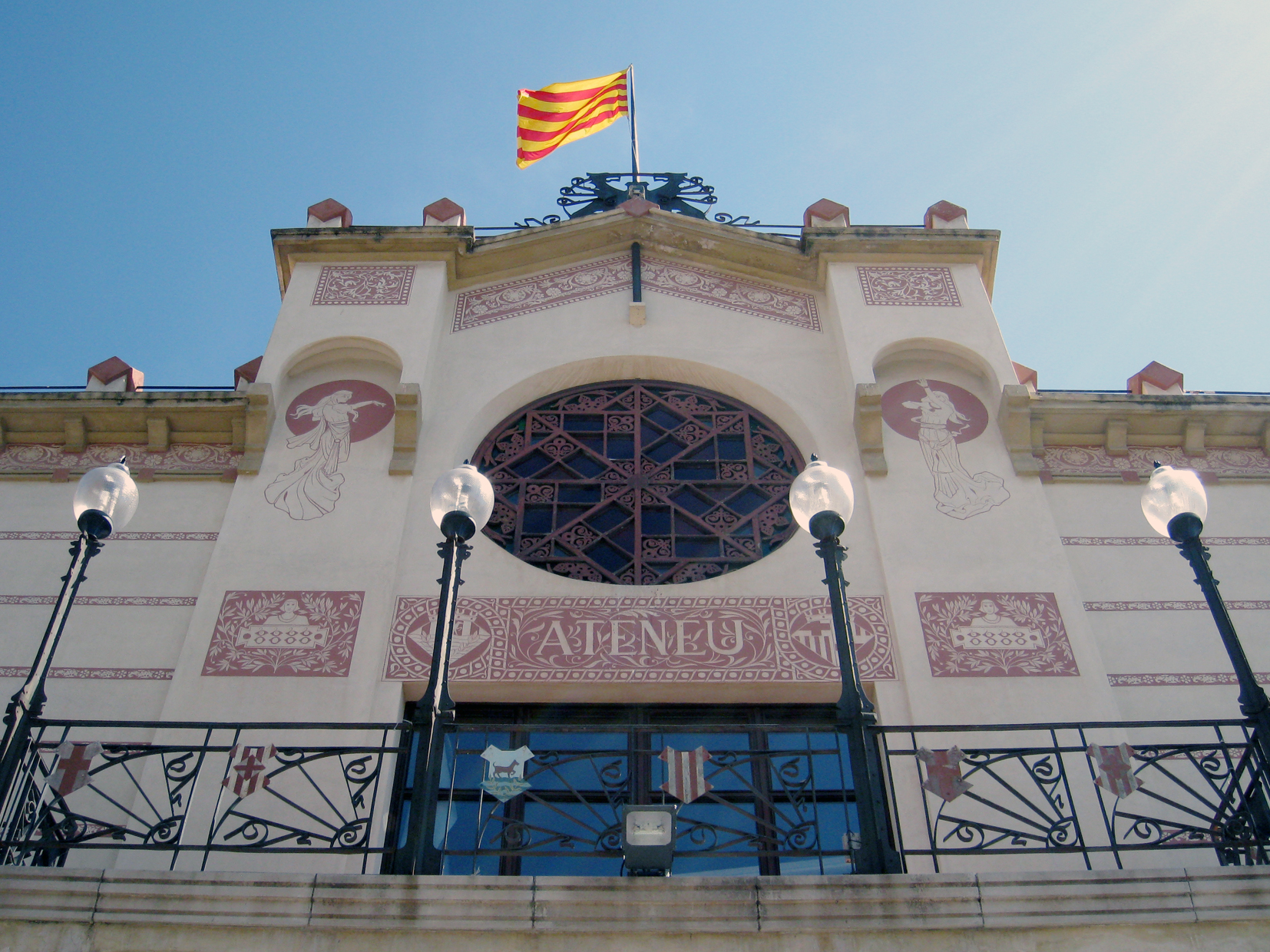 Ateneu (catalan cultural association) of Canet de Mar, Catalonia (Spain).